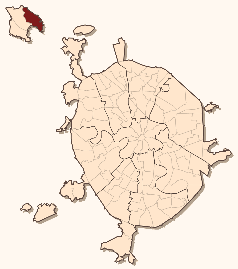 Moscow districts map. Matushkino-Savyolki (2002-2010)